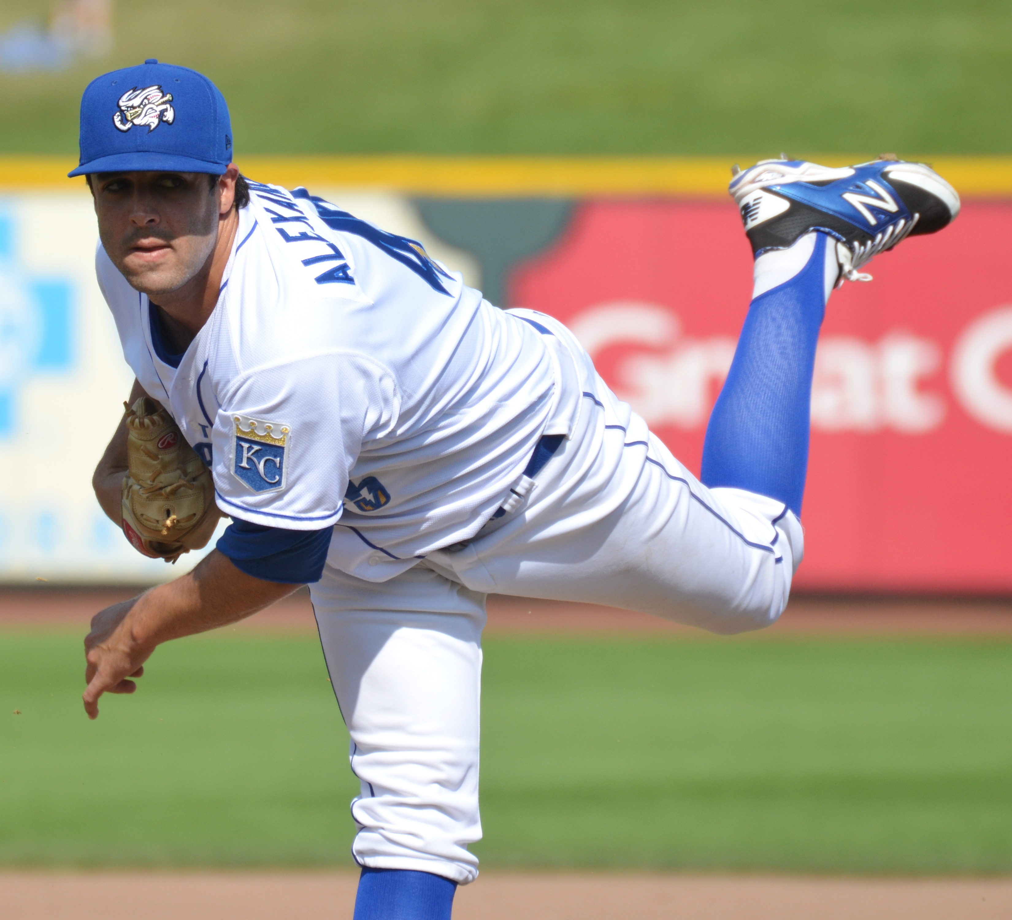 Scott Alexander